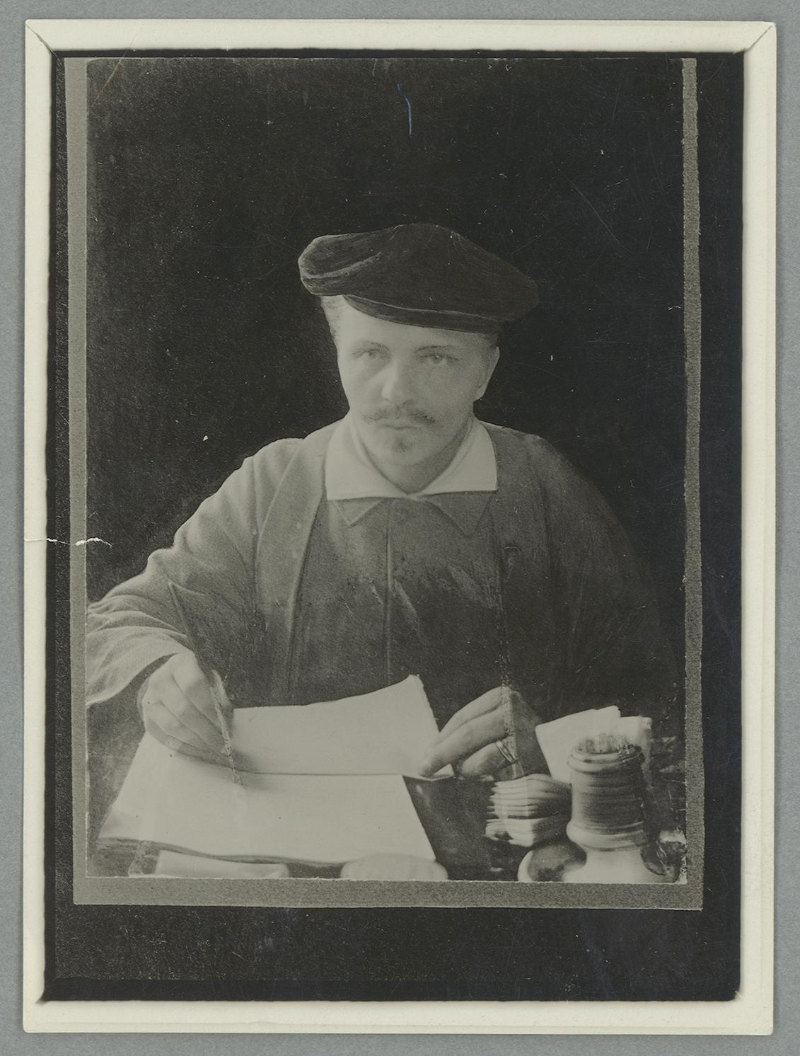 Swedish author August Strindberg. Self-portrait Date: 1885. Photographer: August Strindberg Part Of: National Library of Sweden, Collection of Manuscripts, Strindbergsrummet